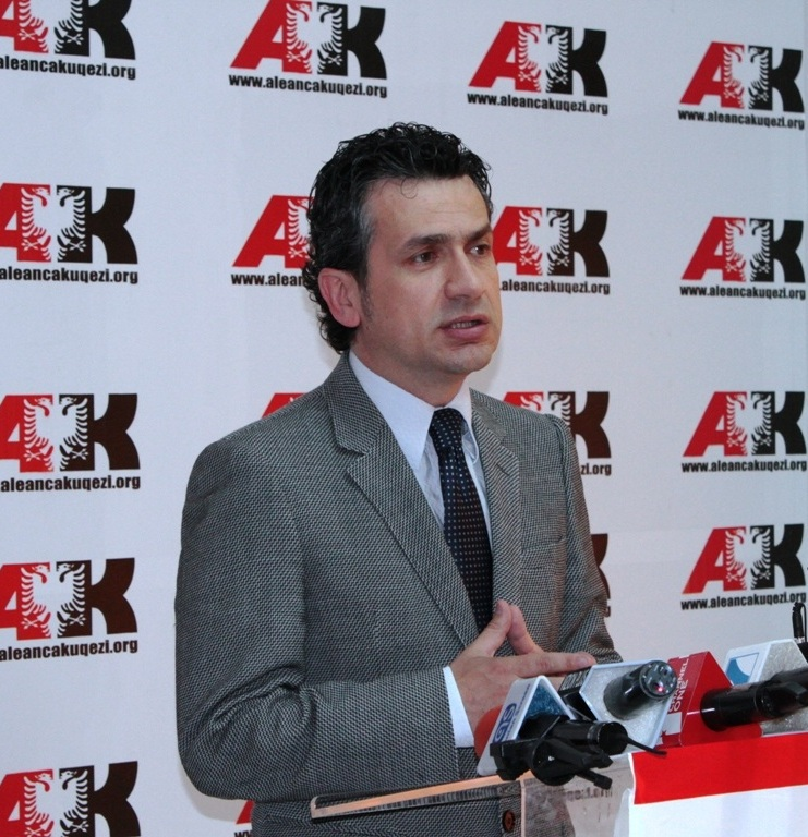 Kreshnik Spahiu in a press conference